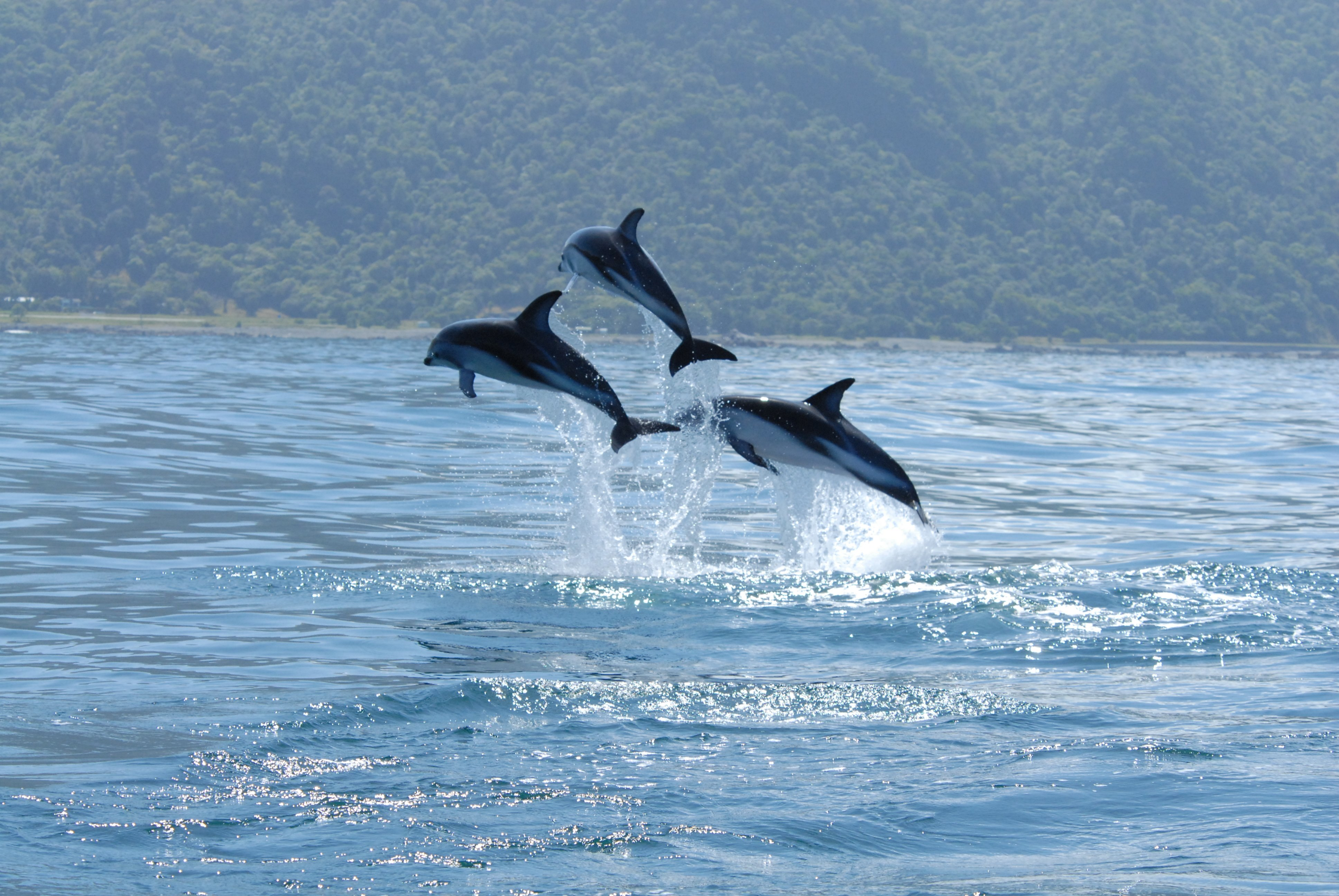 Dusky dolphin (Lagenorhynchus obscurus). New Zealand.